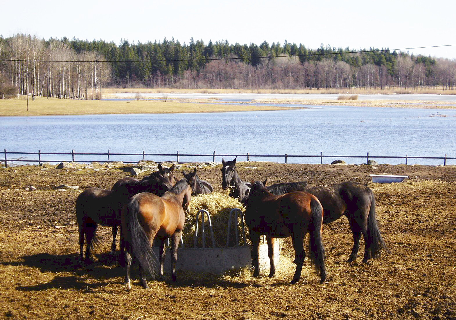 Säby mansion, Järfälla municipality, Sweden (horses)